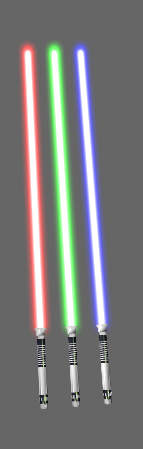 Different colors of lightsabers used in the original Star Wars trilogy.